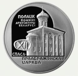 Church of the Transfiguration of Polotsk, Coin of Belarus, Revers